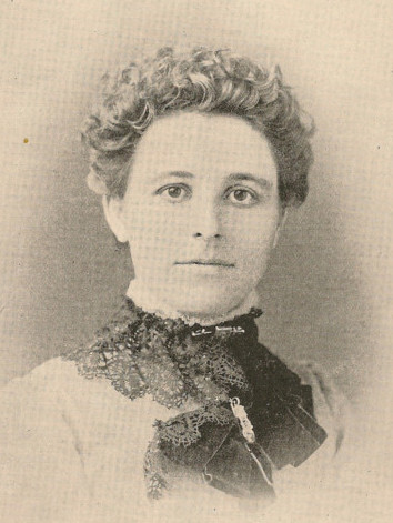 Canadian poet Jean Blewett (1862–1934) This is a portrait illustration on light stock paper removed from a book published in 1896. Page size: 8" x 11" Portrait size: 5 1/2" x 8" Reverse: has text